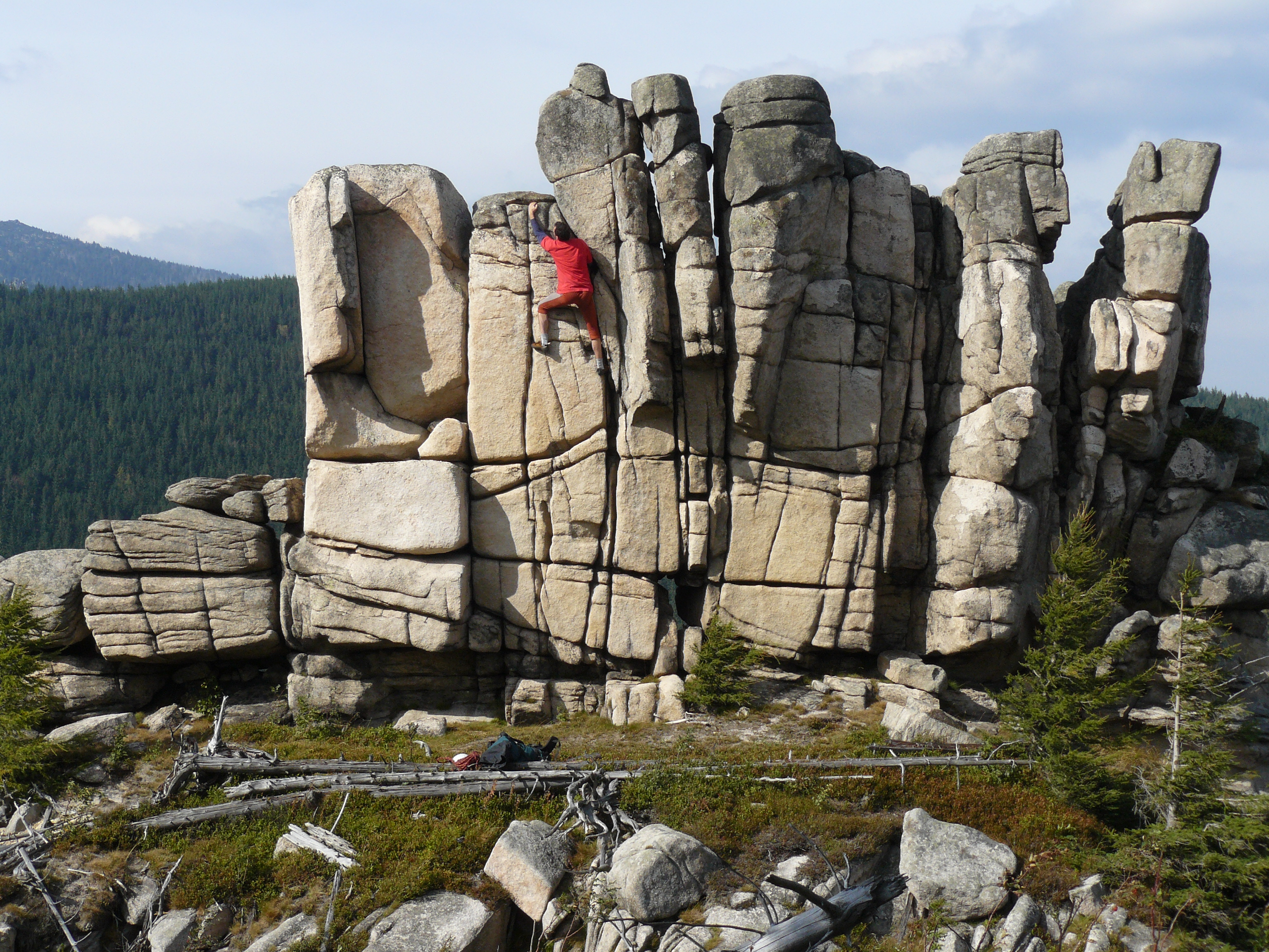 High ball, boulder, "Krzyżodziób" V+, Ptasie skały